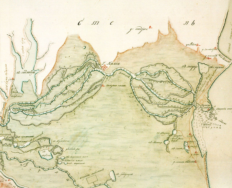 Russian map of the Chilia arm (Danube delta), 1911